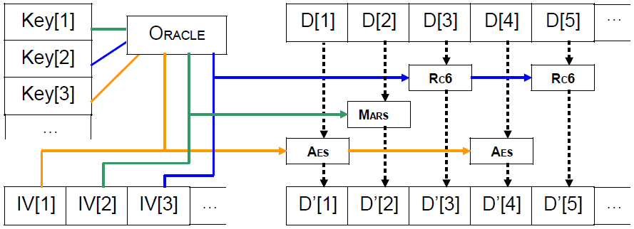 OpenPuff v3.30 Architecture - 9